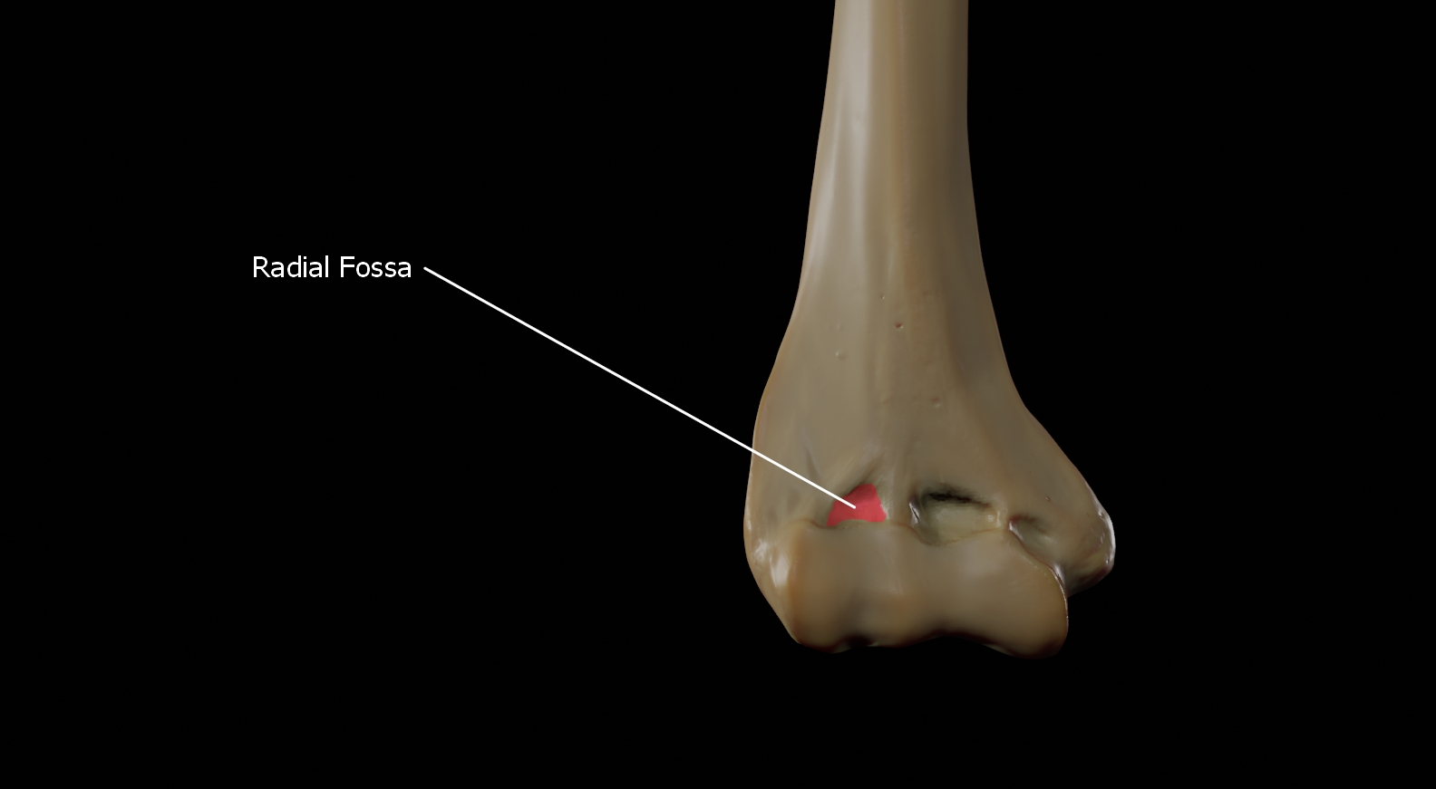 The Radial fossa is located laterally on the anterior surface of the distal forearm and this part receives the head of the radius during maximum flexion of the elbow.